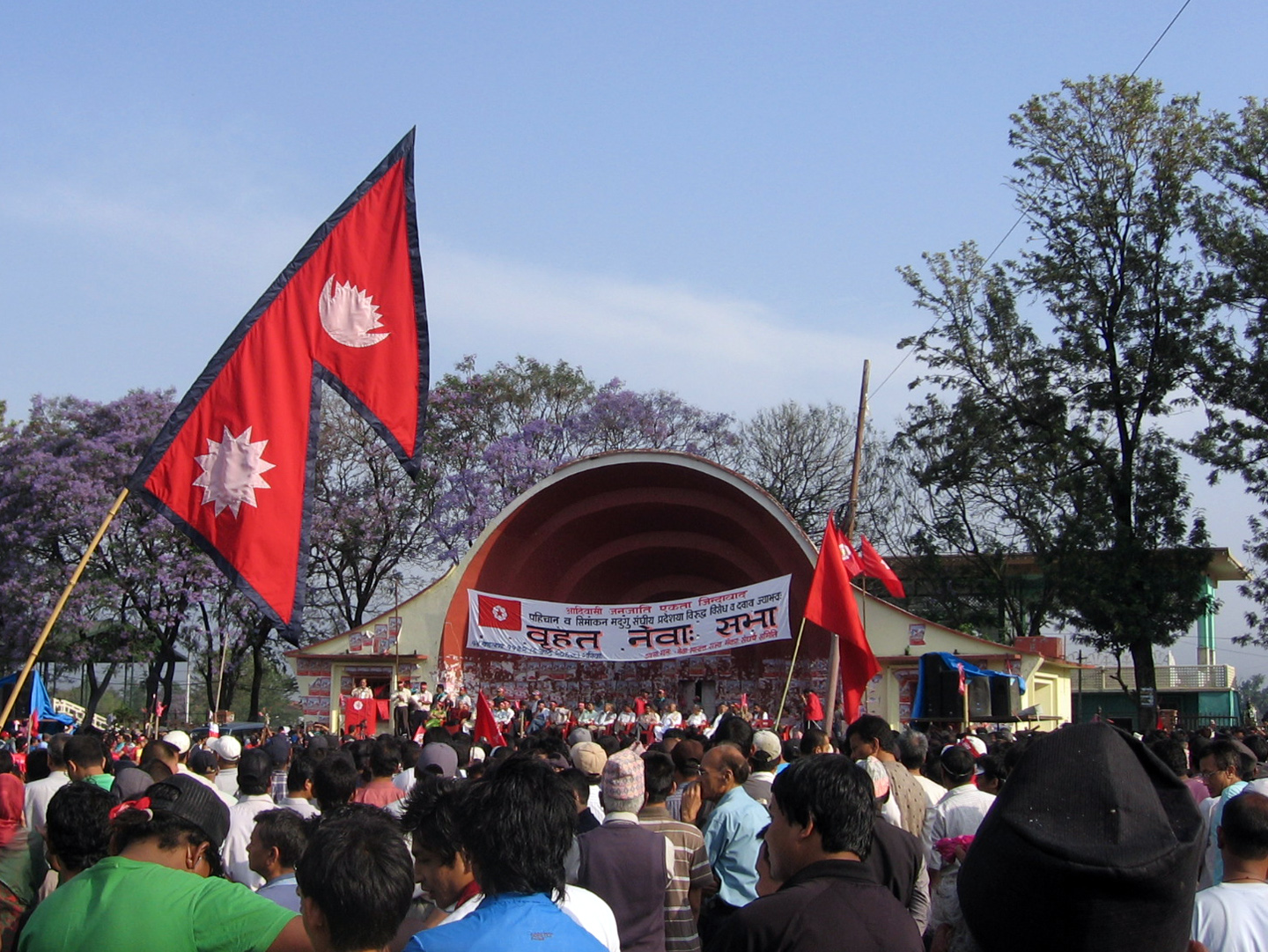 Grand Newar Conference held in Kathmandu to protest proposal for states without identity in Nepal.